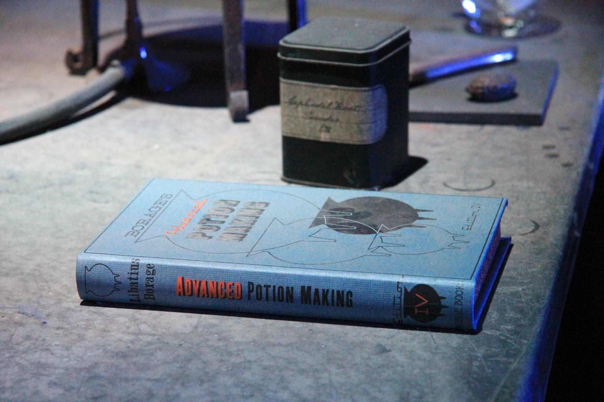 Warner Bros. Studio Tour London: The Making of Harry Potter.